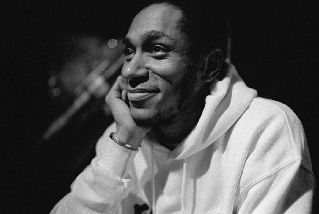 NYC 1999